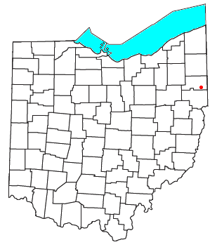 Locator map of the unincorporated community of North Lima in Mahoning County, Ohio, United States.